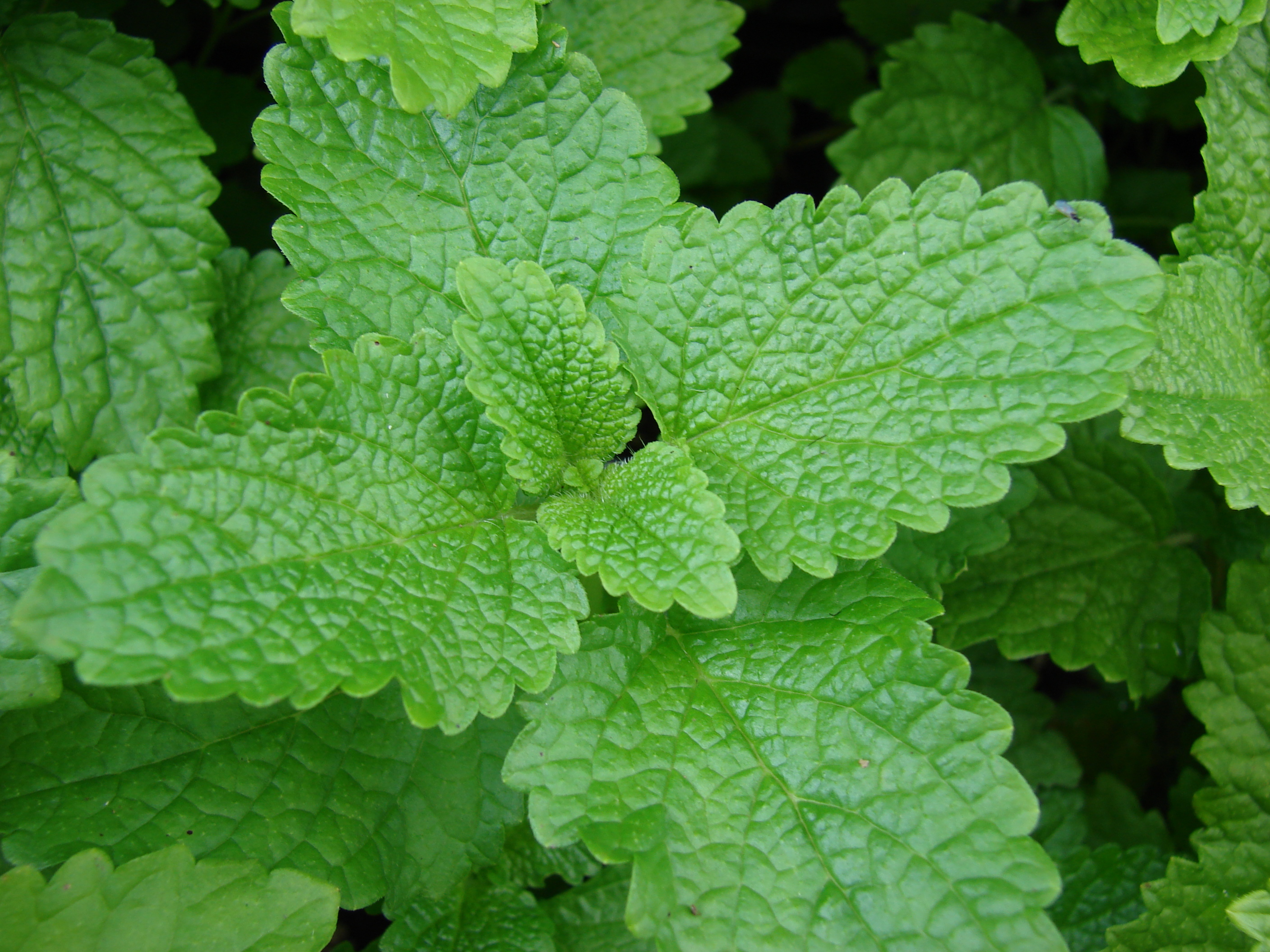 Melissa officinalis (leaves). Location: Maui, Kula Ace Hardware and Nursery